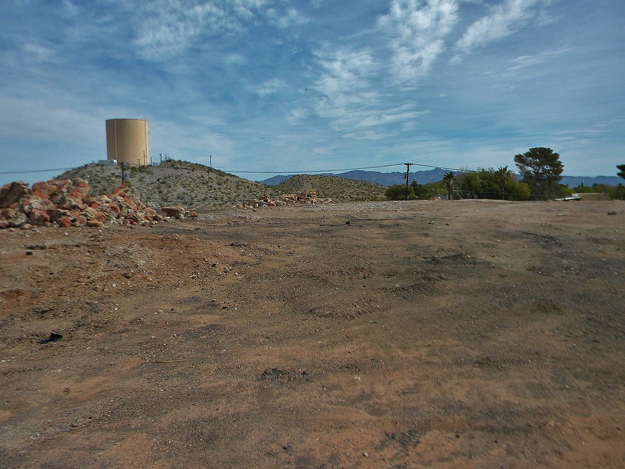 Old Boulder City Hospital Property was sold and, despite a preservation effort, the facility was demolished late in 2015.